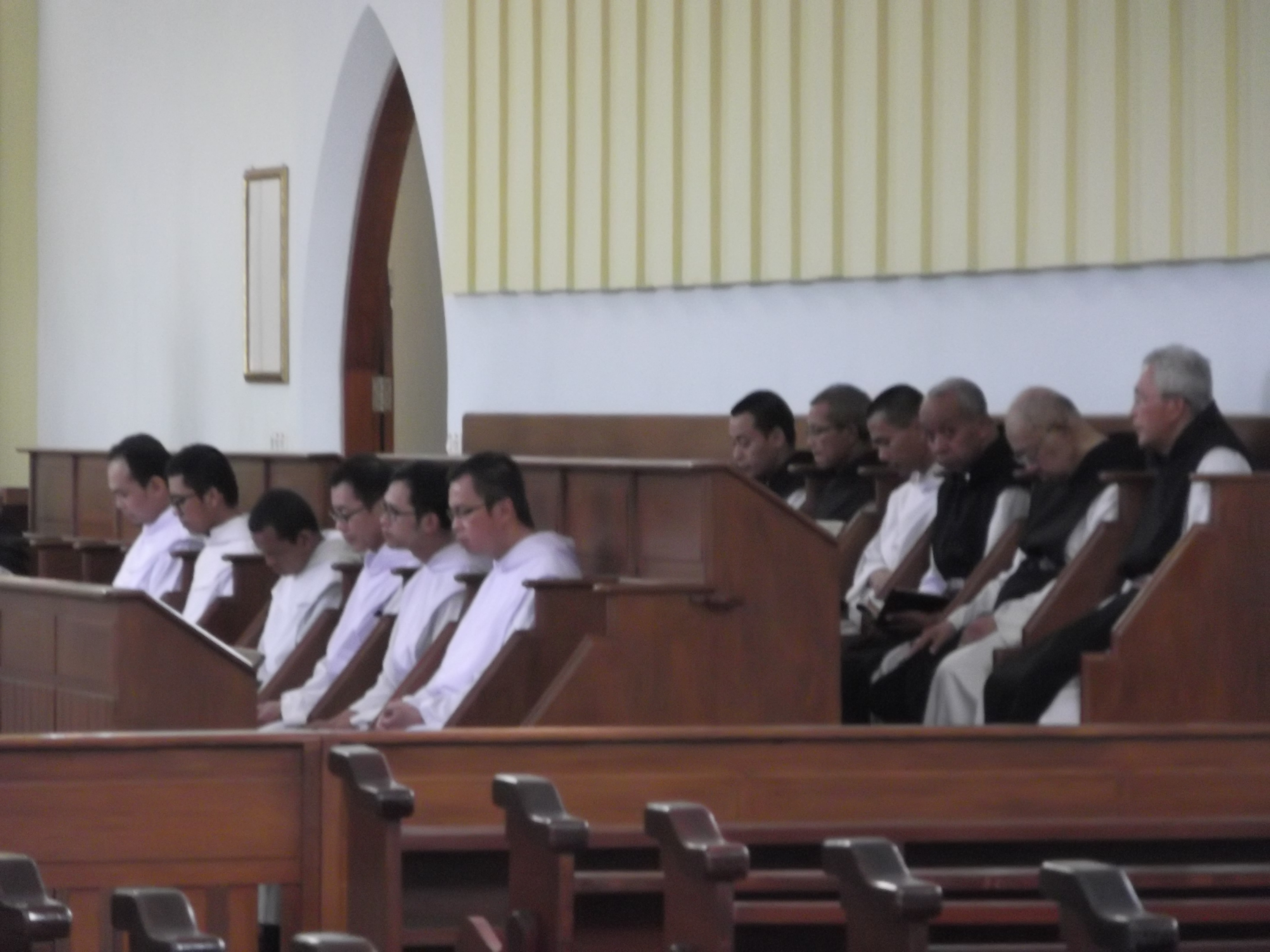 Trappist monks are celebrating Terce in the Church of the Monastery of Saint Mary Rawaseneng, Temanggung, Indonesia. Abbot Aloysius Gonzaga Rudiyat, OCSO is sitting on the rightmost.